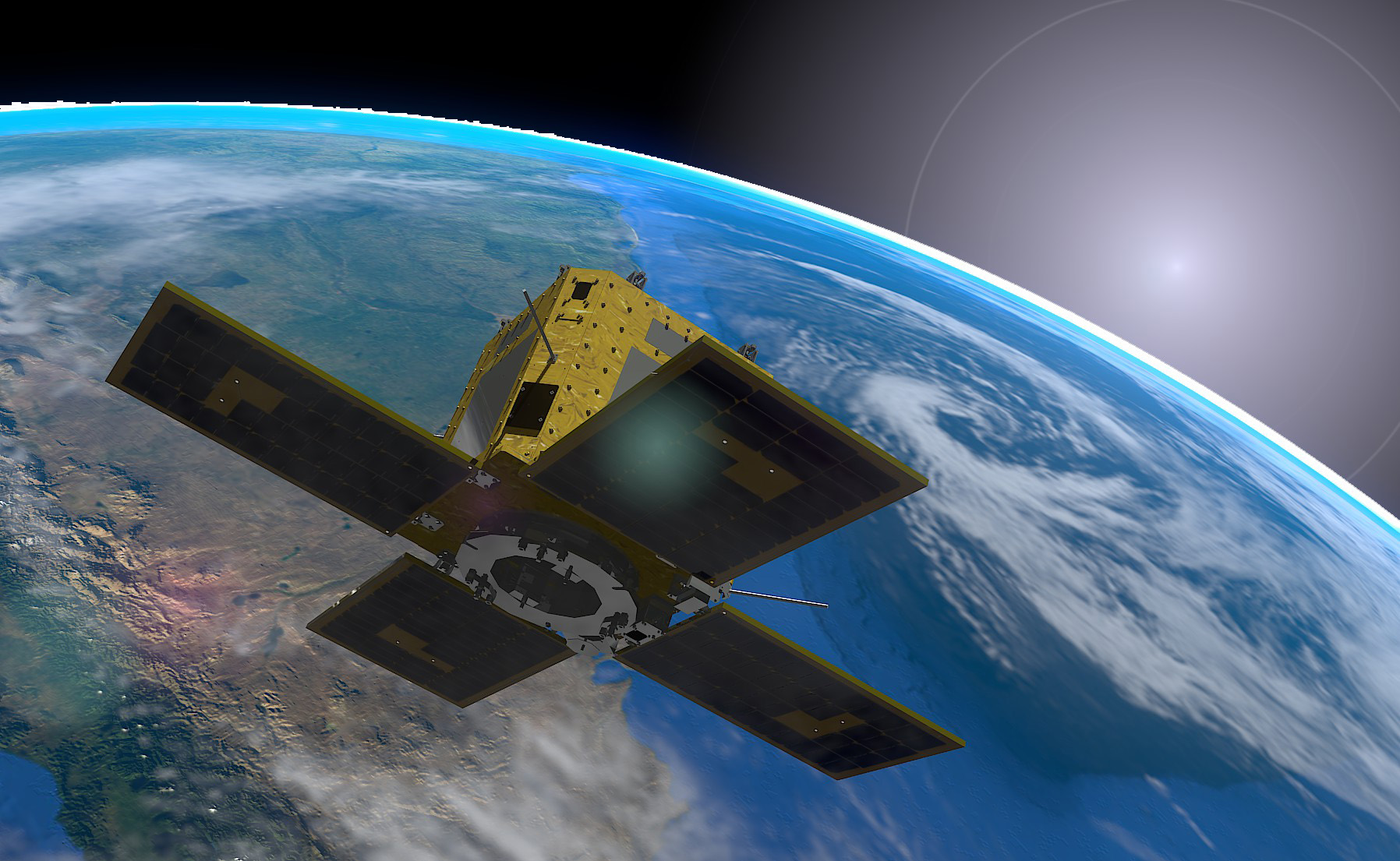 The CG image of satellite TSUBAME